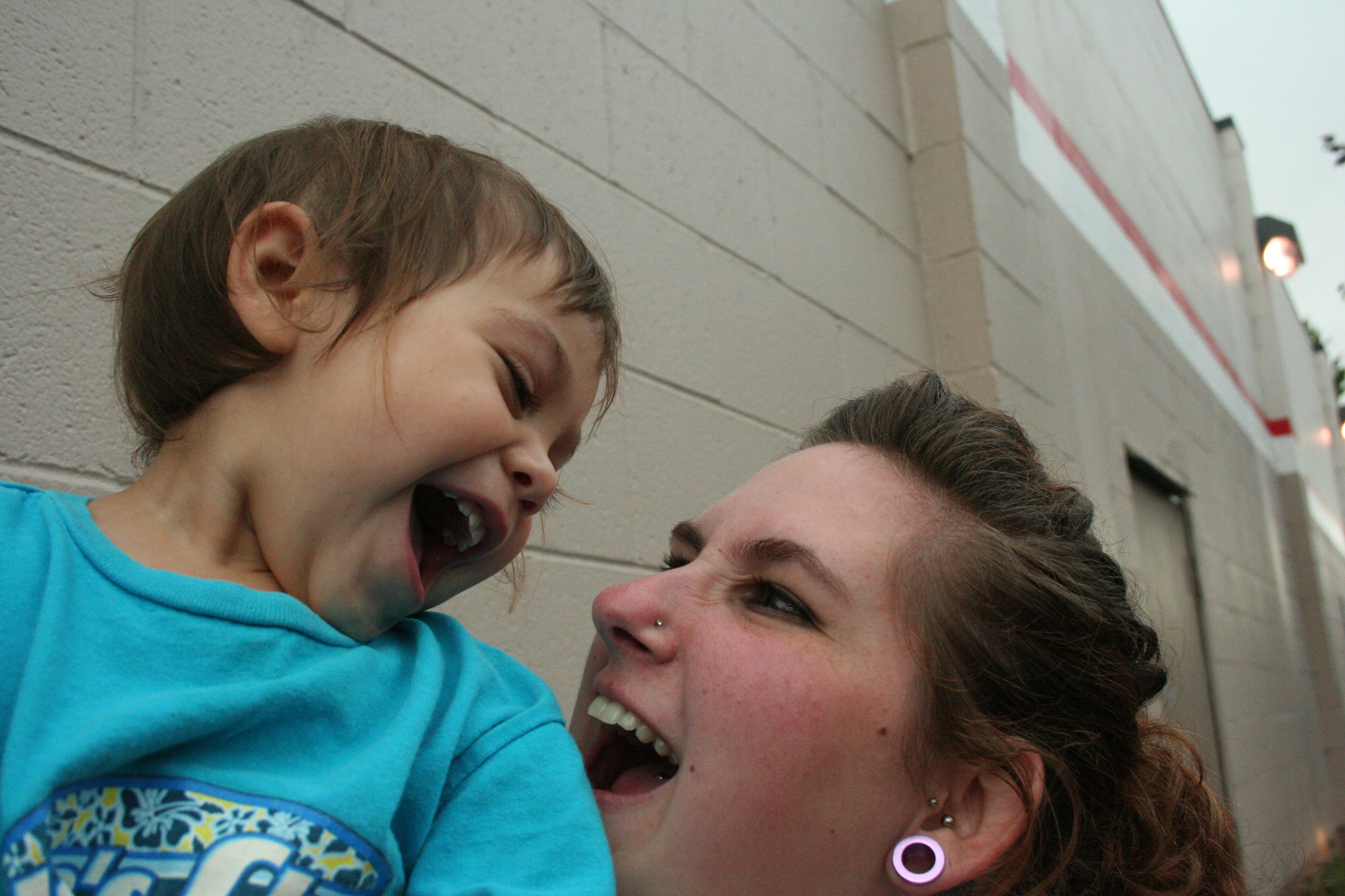 Aunt April plays with lorelei